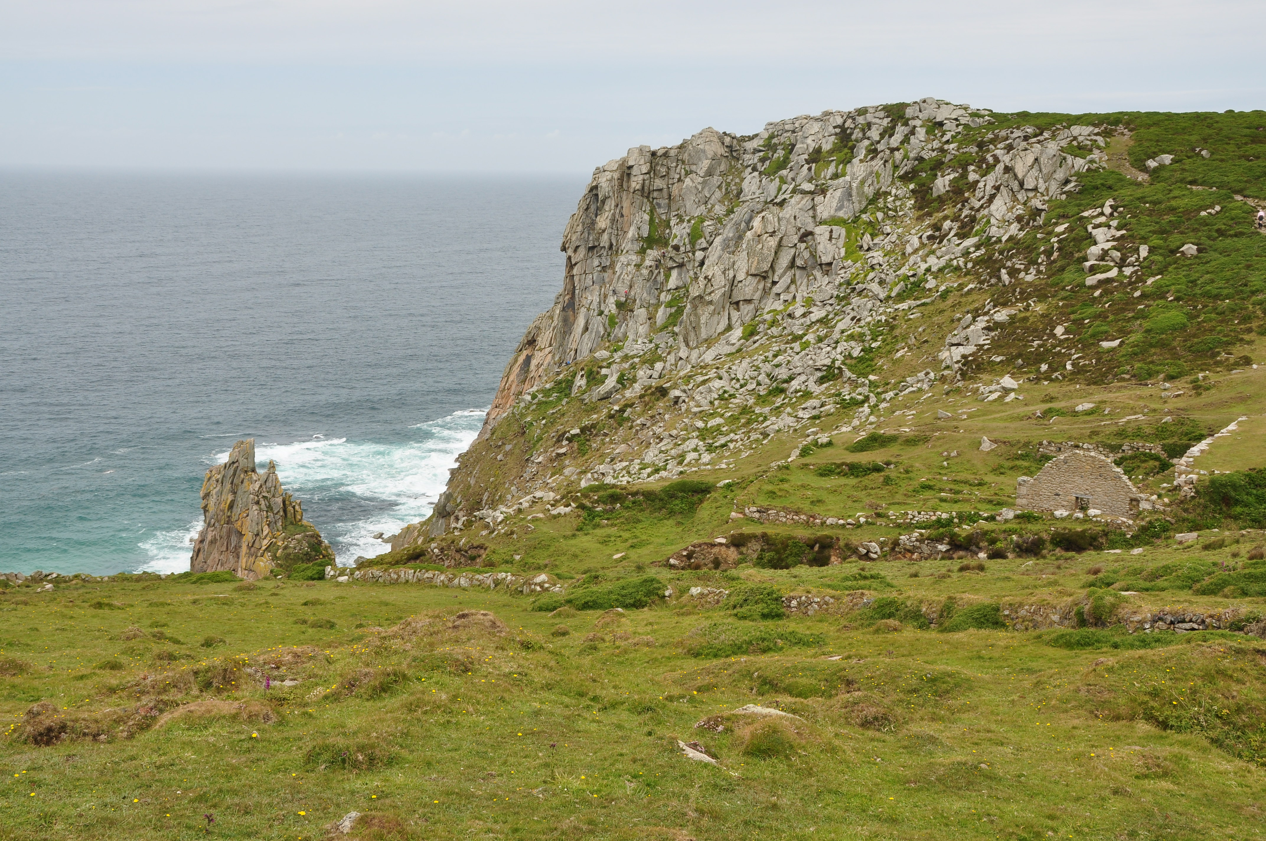 Bosigran Cliff